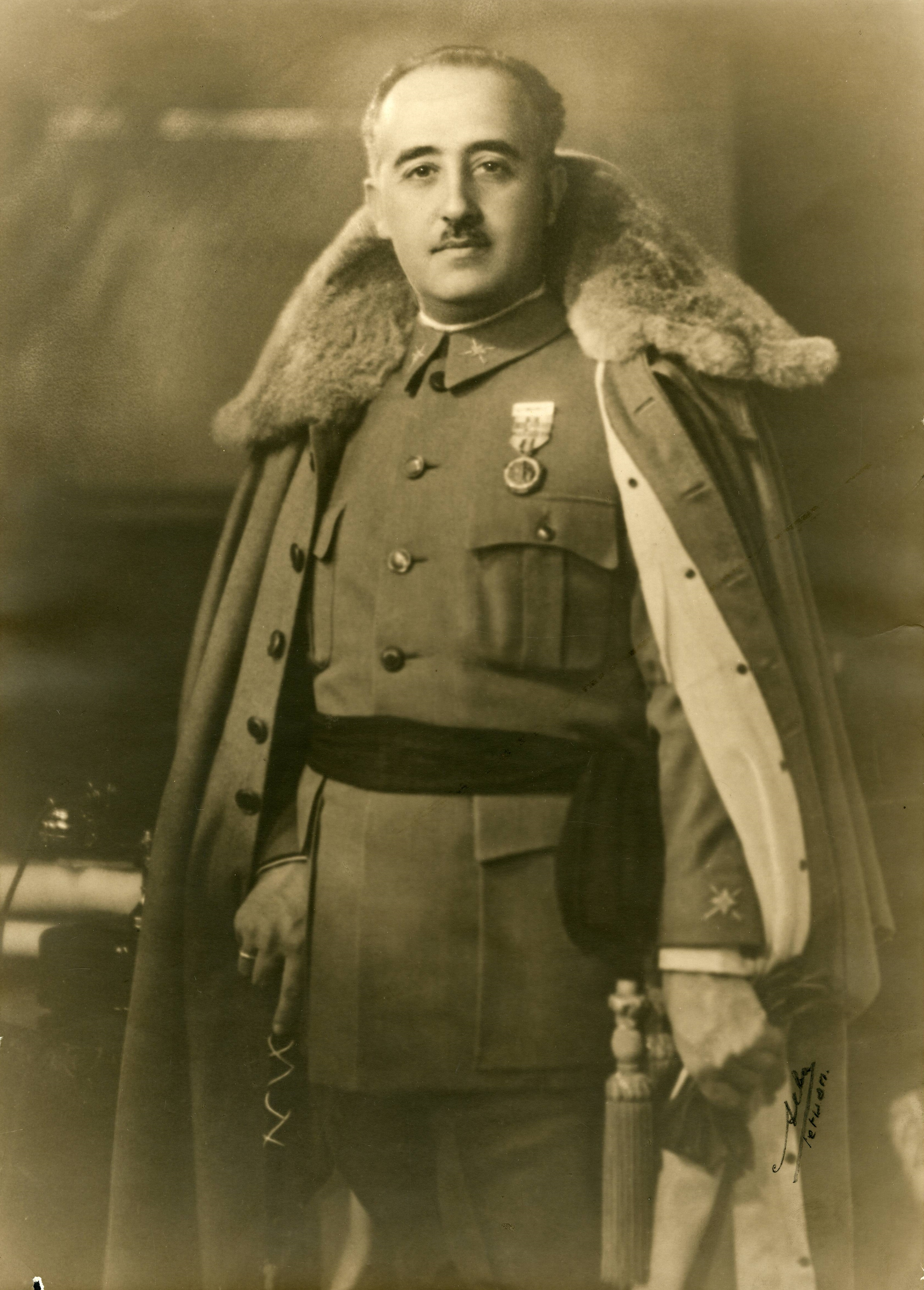 Photograph of General Franco with winter cloak.